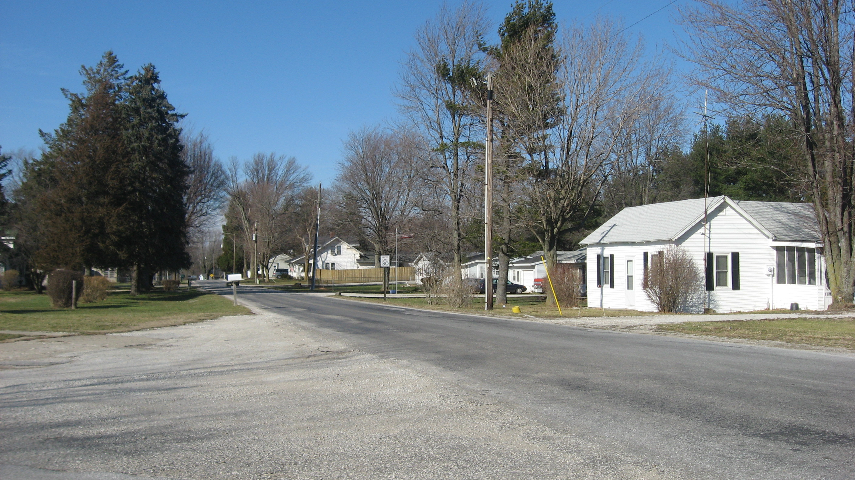 Looking northward along the Frances Slocum Trail from W500N at Jalapa in Pleasant Township, Grant County, Indiana, United States.